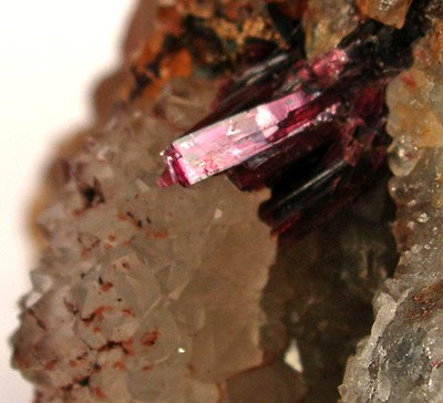 Erythrite, Quartz Locality: Daniel Mine (St. Daniel Mine), Neustädtel, Schneeberg District, Erzgebirge, Saxony, Germany (Locality at ) Size: miniature, 5.9 x 4.7 x 3.3 cm Erythrite on Quartz A GORGEOUS SPECIMEN with intense, maroon-red crystals of radiating erythrites set against sparkling quartz. This old find, from the mid-1800s and maybe earlier, has always set the standard for the species for sheer color and lustre. These crystals, to 13 mm, exemplify the best of those qualities. Additionally this piece has a nice significance as it is from teh type locality for the species. Note the date of 1860 on the label.